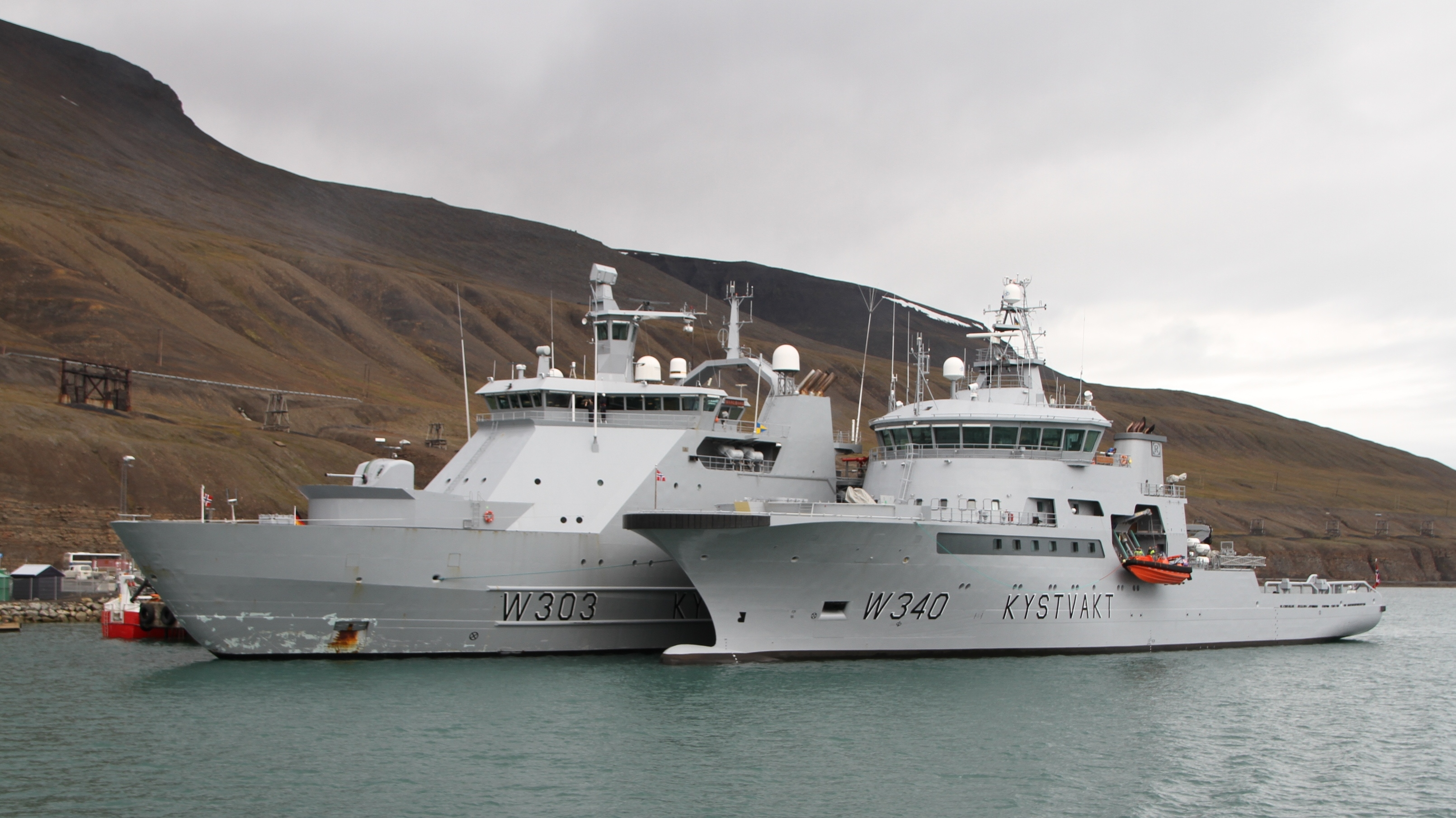 KV Svalbard (left) and KV Barentshav (right), two norwegian coast guard (Kystvakten) ships in Longyearbyen (Adventfjorden), Spitsbergen.